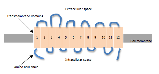 Simplified structure of the norepinephrine transporter protein. The protein is 617 amino acids long and consists of 12 transmembrane domains. Not to scale.